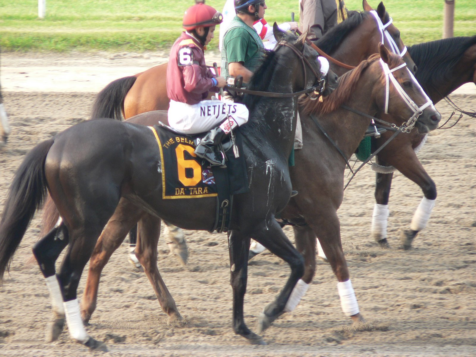 Da'Tara, winner of the 2008 Belmont Stakes in an upset from favorite Big Brown.